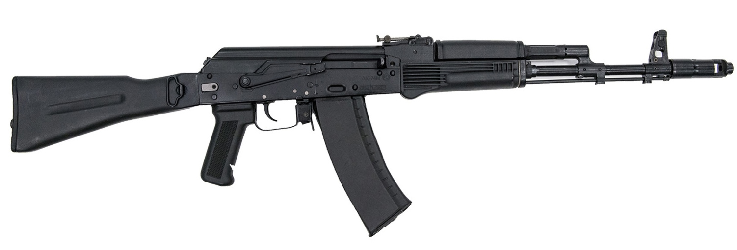 AK-74M service rifle